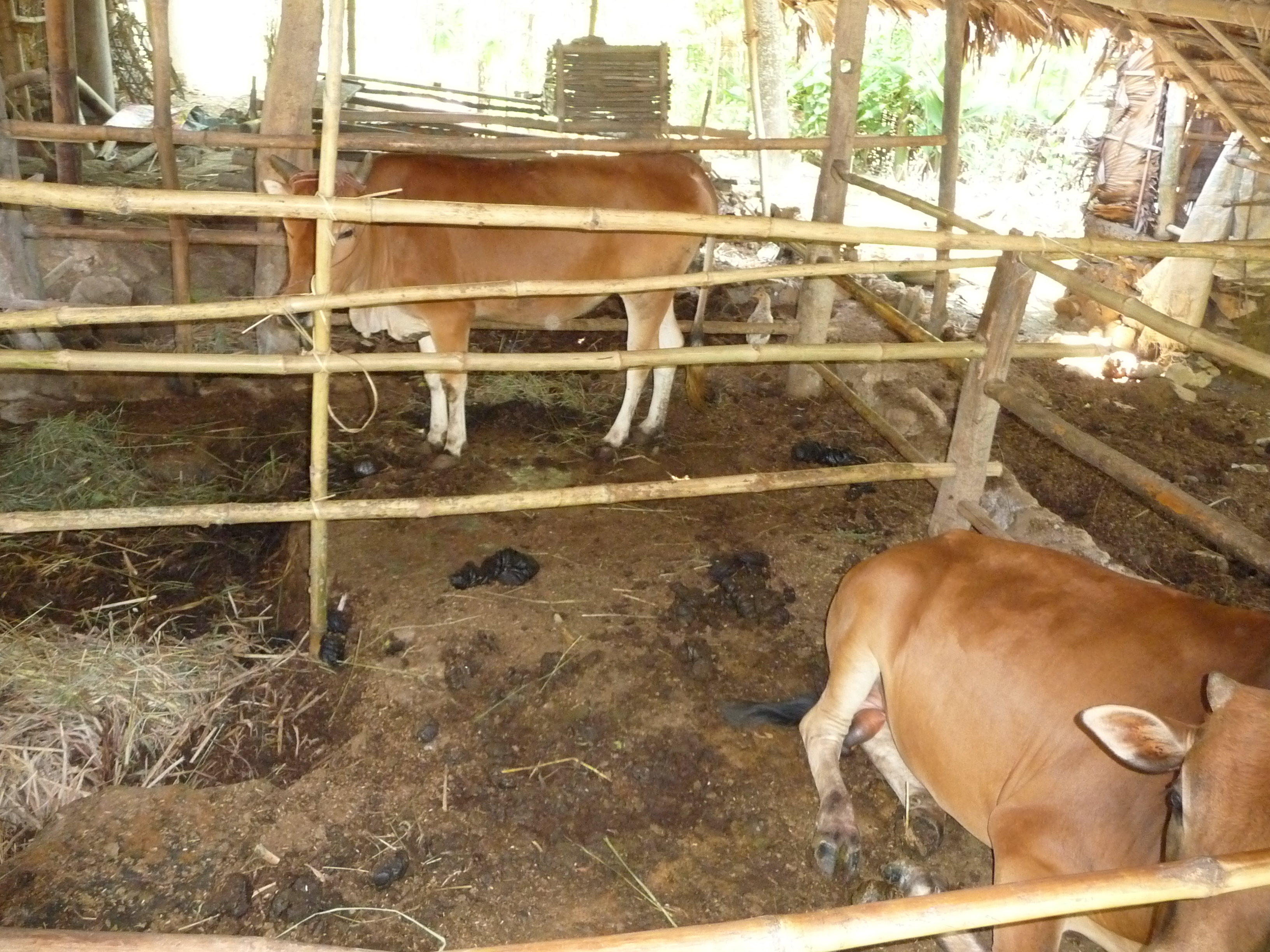 Sanitary livestock pen, Can Loc, Thanh Hoa, Vietnam 2010. Photo: AusAID